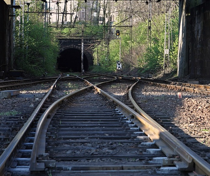 Northern entry of railway tunnel in Bielsko-Biała, Poland.